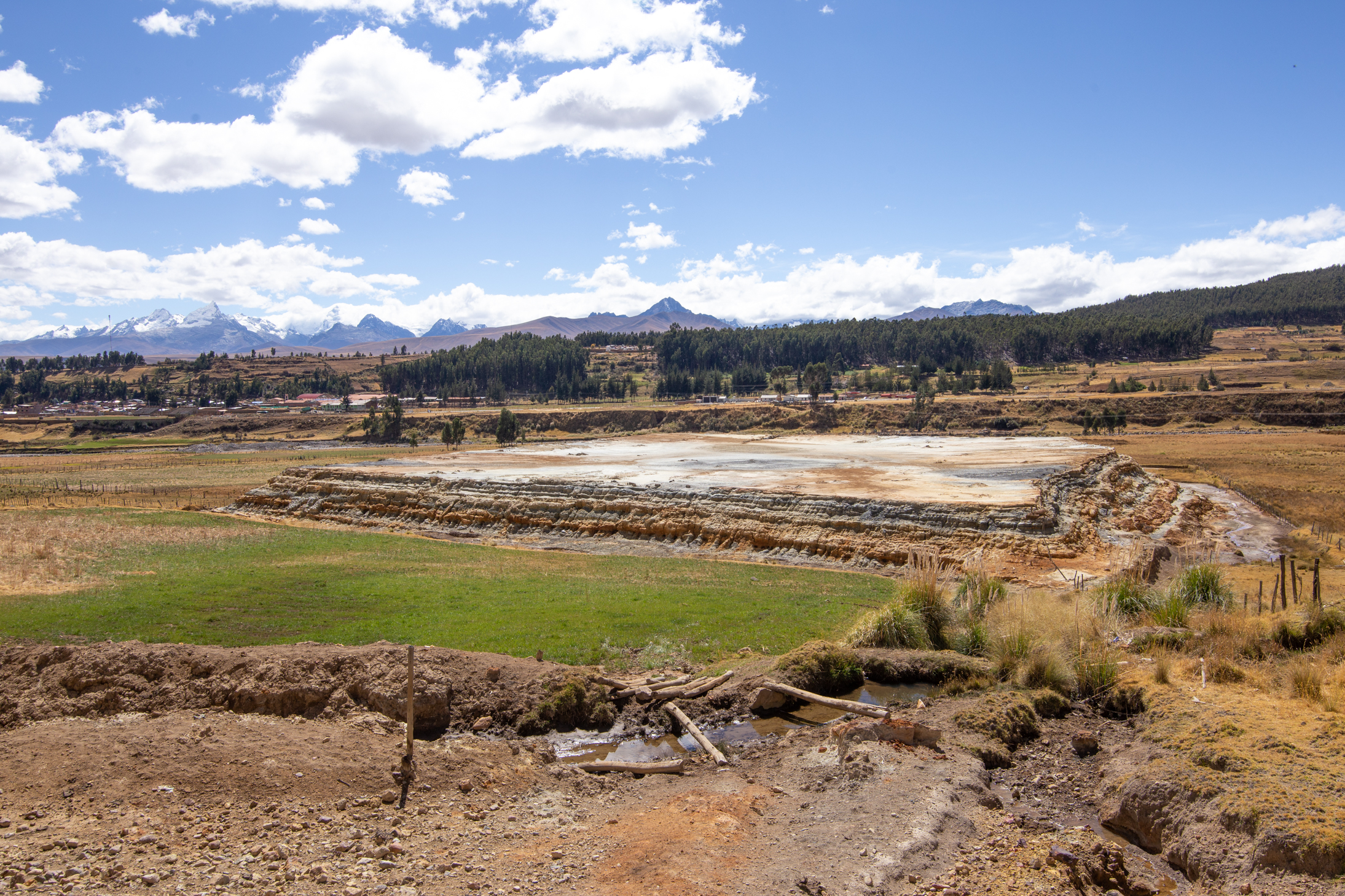 Foto tomada durante el Paseo Turístico, Educativo y Fotográfico organizado por Wiki Loves Andes el 20 de julio de 2019 para conocer parte del patrimonio minero en la provincia de Recuay, Áncash.